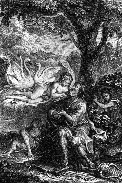 A drawing in August Tandon's book about Occitan fables